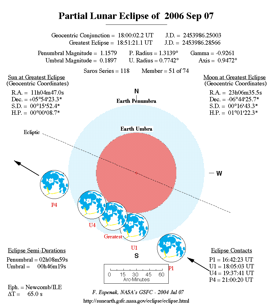 Sketch of the 2006-09-07 lunar eclipse.